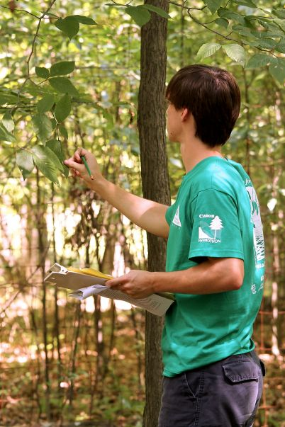 Tree Identification during Forestry Testing at the 2012 North American Envirothon Competition.